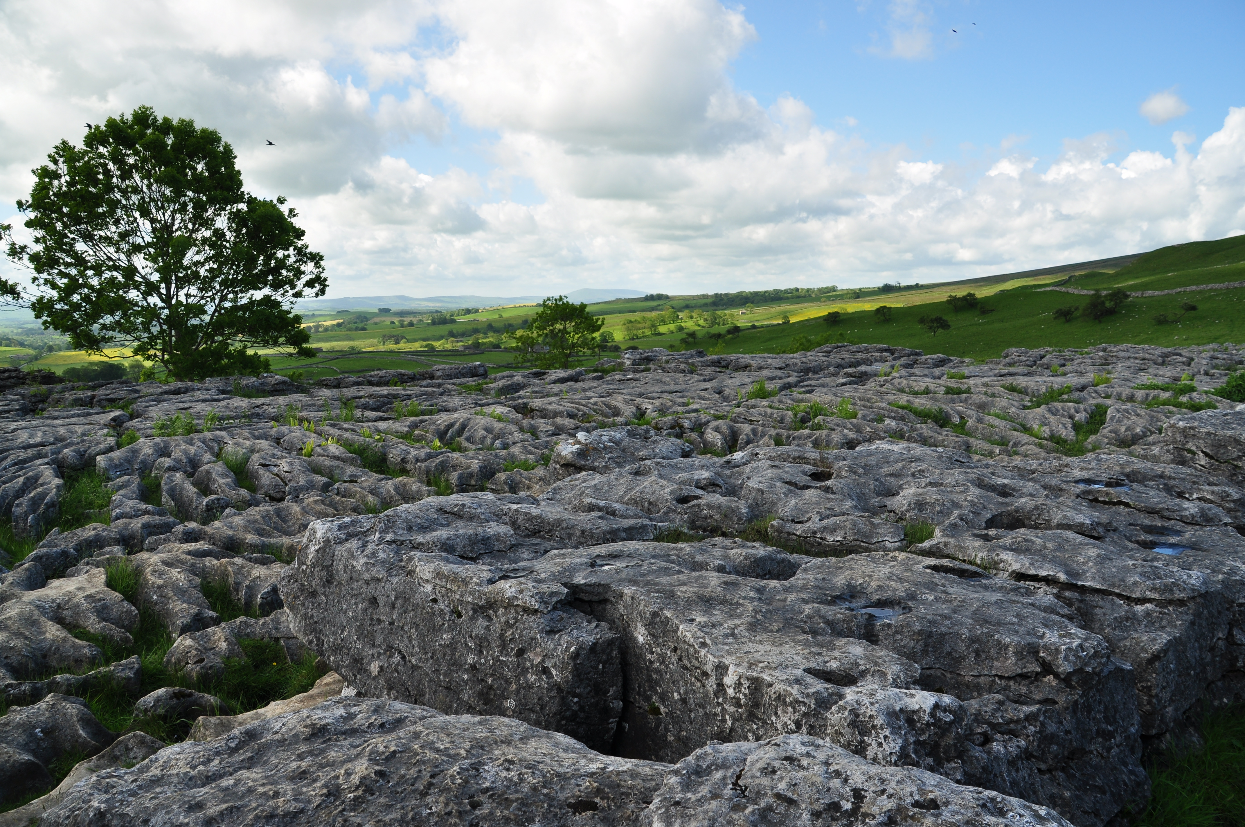 Limestone pavement above Malham Cove